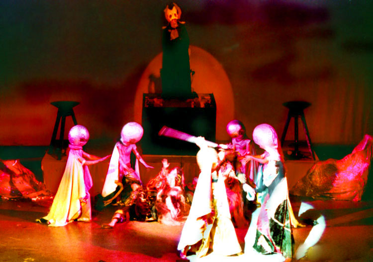 These photoes were taken by the official Nambassa photographer at the 1978 Nambassa Winter Show in New Zealand. Photographer Paul Gilbert. Uploaded by Mombas 09:35, 3 May 2007 (UTC) Summary Terms of Use: 1/ All users of this image are required to attribute this work to "Nambassa Trust and Peter Terry" and the URL: " " is to accompany all use. 2/ Attribution. You must attribute the work in the manner specified by the author or licensor. 3/ For any reuse or distribution, you must make clear to others the license terms of this work. Statement by Nambassa Trust and Peter Terry